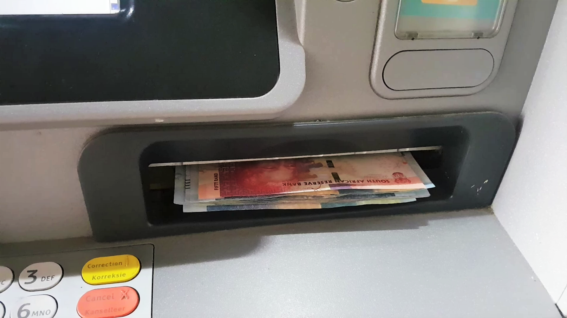 An ATM withdrawal of South African money (R50 and R100s)